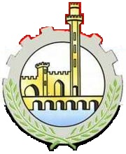 Qalyubia Logo